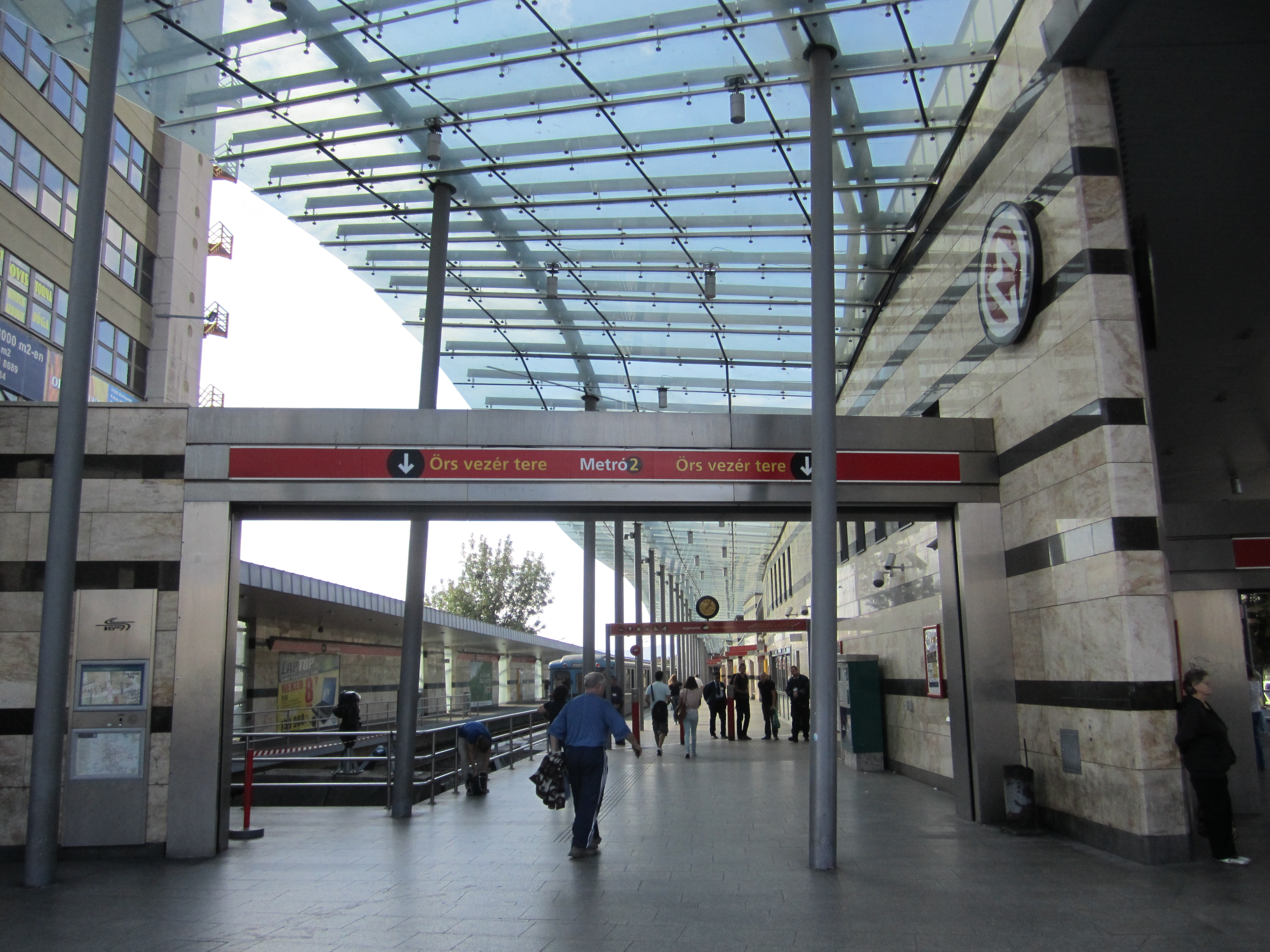 Ors Vezer square Metro Station in Budapest.jpg